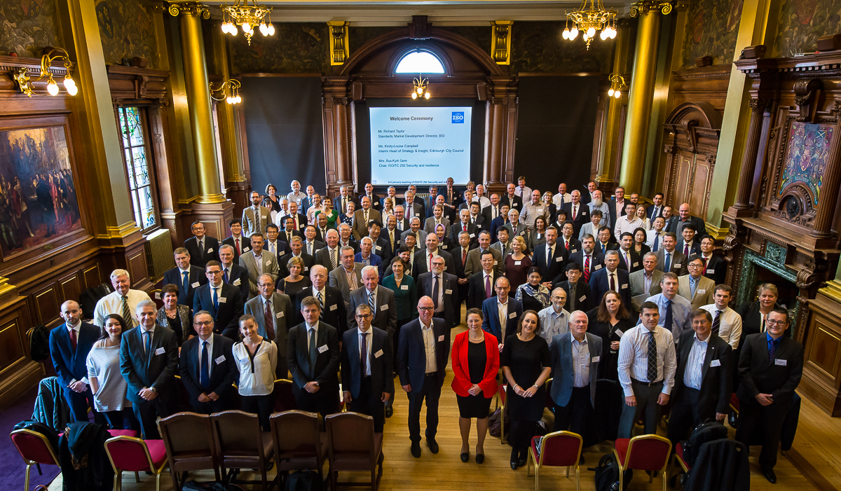 Group photo at plenary meeting held in Edinburgh